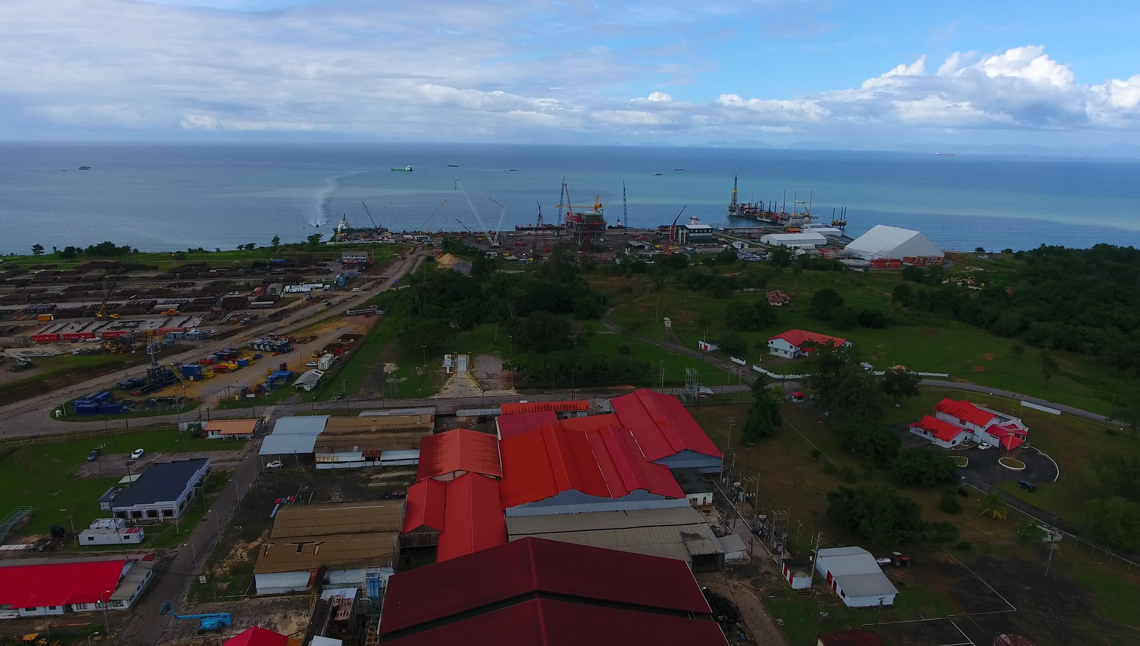 Facilities of LABIDCO, La Brea, Siparia, Trinidad and Tobago. La Brea Industrial Development Company, state-owned company (shares held by NGC and Petrotrin), operates this deep-water harbour at La Brea, among other fecailities. Photo taken as part of the Southern Trinidad Aerial Photo Project, a small project sponsored by WMDE. Drone used: DJI Phantom 4. Snapshot taken from video footage via VLC.